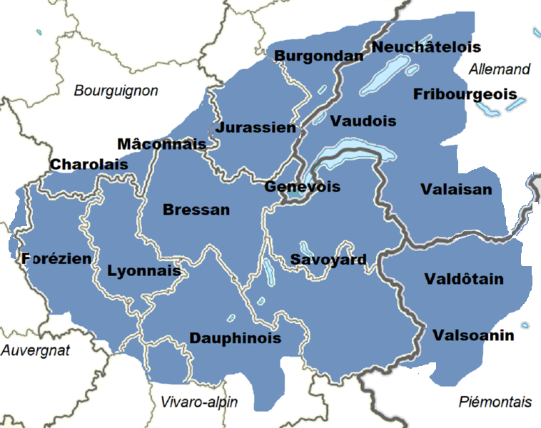 Arpitan dialects.